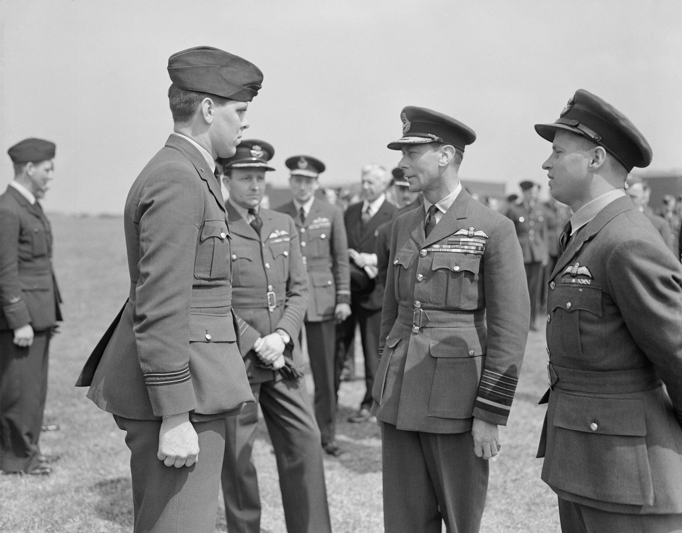 Royal Air Force Bomber Command, 1942-1945. King George VI, with Wing Commander Guy Gibson (right) , talking to Flight Lieutenant D J H Maltby, during his visit to No 617 Squadron RAF at Scampton, Lincolnshire, following the Dams raid in Germany. Maltby and his crew delivered the Squadron's final attack on the Moehne Dam, which successfully breached the dam wall.